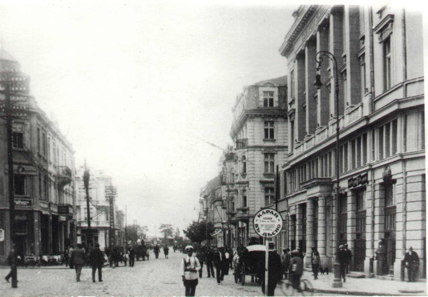 Bulgaria, the town of Burgas, Alexandrovska Street in 1906 year. Archival photograph from the Burgas Regional Library